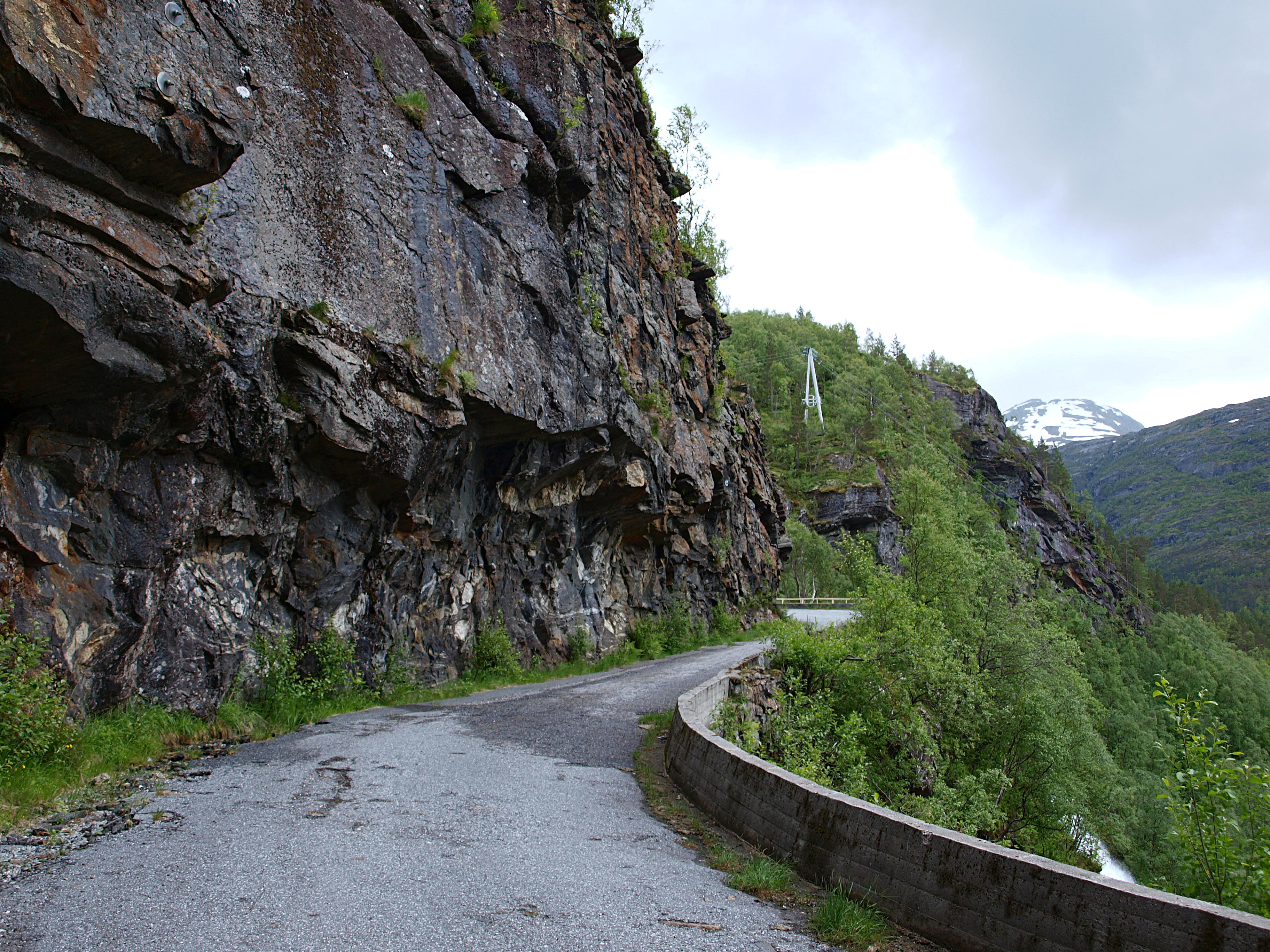 Road beside Fossen Bratte, the old Riksveg 7